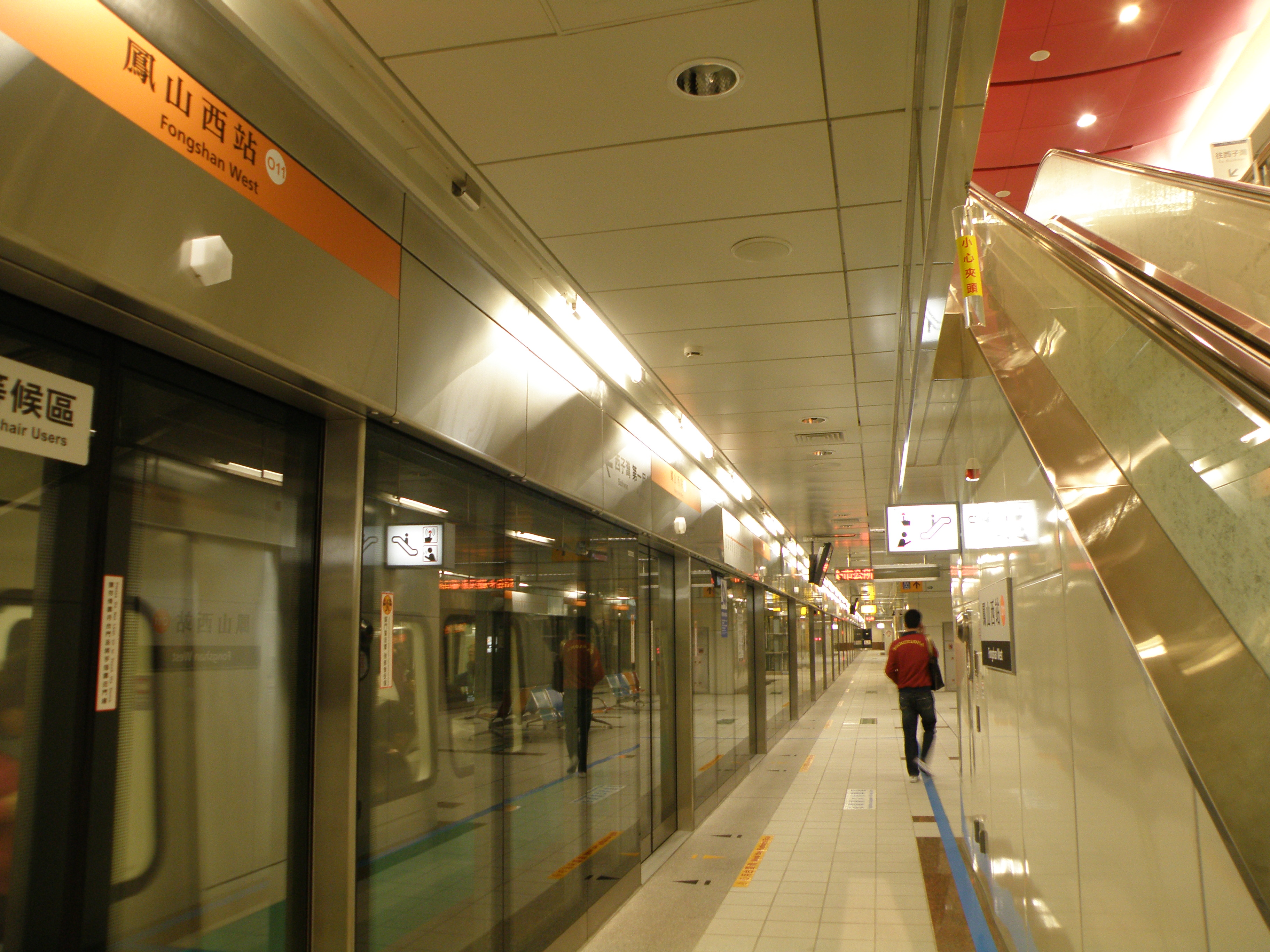 Platform of Fongshan West Station, Kaohsiung Mass Rapid Transit.